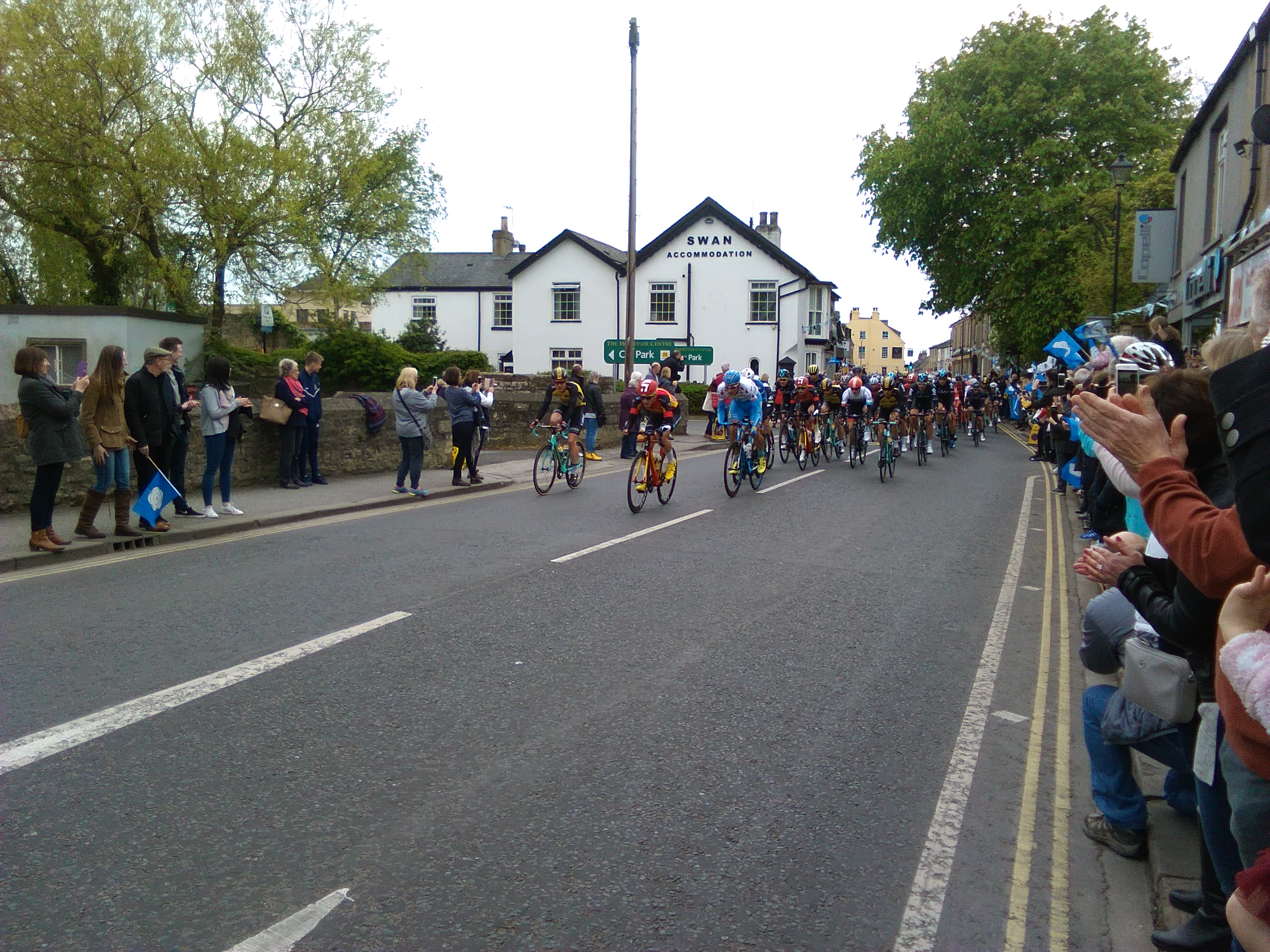 The second day of the 2017 Tour de Yorkshire seen on North Street in Wetherby, West Yorkshire. The peleton set off from Tadcaster just after two O'clock and is heading in a roundabout way to Harrogate. Taken on the afternoon of Saturday the 29th of April 2017.